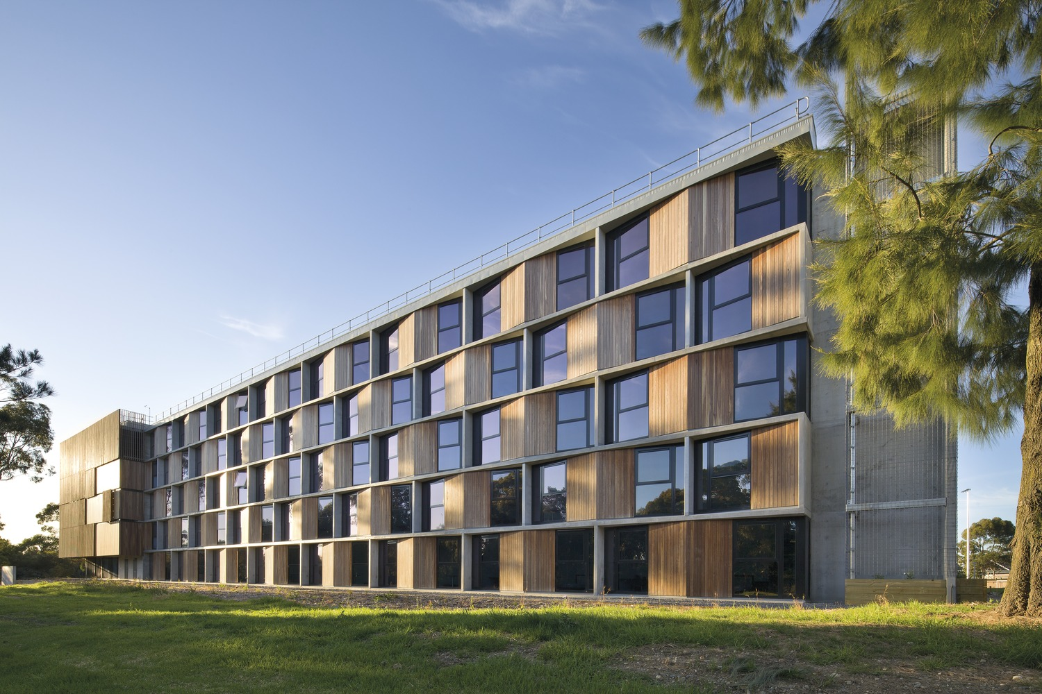 Monash University Student Housing, Clayton